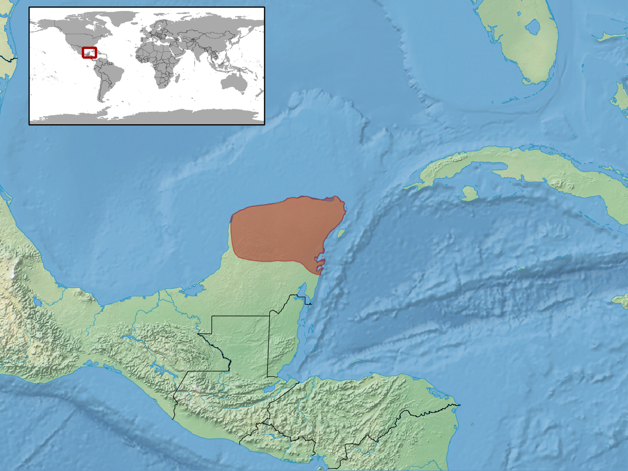 geographic distribution of Coniophanes meridanus (Native: Mexico)